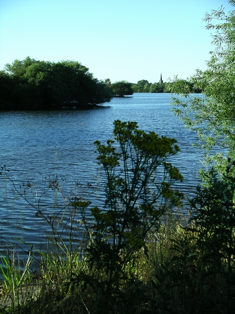 Attenborough Nature Reserve. Looking across one of the flooded gravel pits which make up Attenborough Nature Reserve to Attenborough village church in the distance. for comprehensive information about the nature reserve.